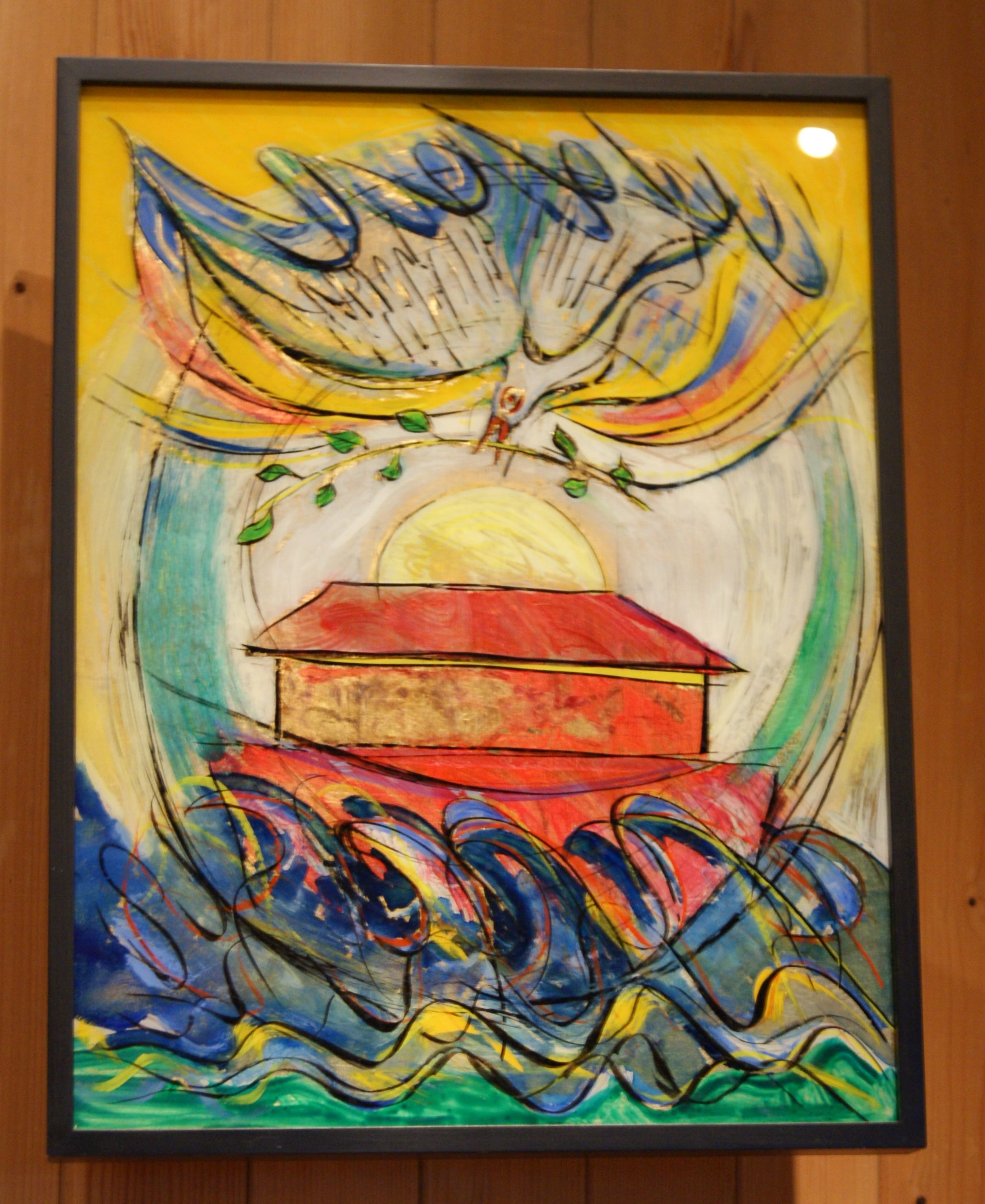 Chapel hl. Theresia in Ratzen in Schwarzenberg, Vorarlberg, Austria. Built in 1932 according to the plans of the architect F. Fuchsberger from Munich. Inaugurated on 31 July 1932 by Bishop S. Waitz. 15th Stations of the Cross by Gerhard Winkler (* 1939).